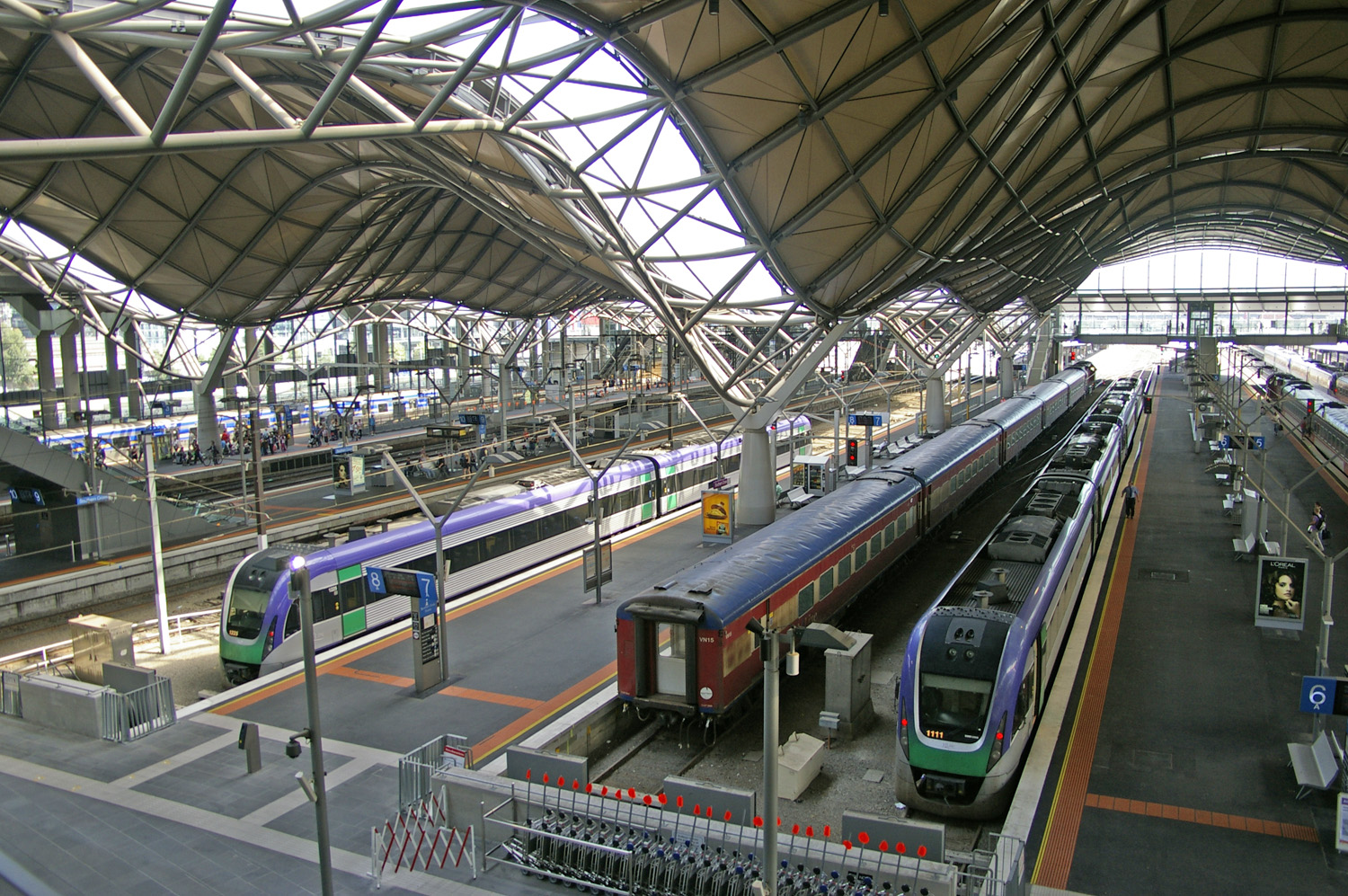 Interior of the Southern Cross Station, Melbourne, Victoria, Australia.